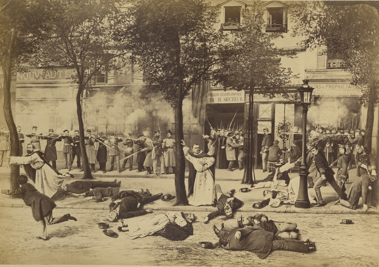 Following France’s defeat in the Franco-Prussian War and the fall of Napoleon III, thousands of Parisians revolted against the new royalist-leaning government and declared Paris an independent commune. Weeks of fighting ensued, during which Versailles troops attacked the city while the Communards threw up barricades, shot hostages, and burned government buildings. Soon afterward, Appert, a Parisian portrait photographer, issued “Crimes of the Commune,” a tendentious series of nine photographs of the insurrection that emphasized the criminal brutality of the rebels. Although based on real events, the photographs were utterly fabricated. Appert hired actors to restage each scene in his studio then cut and pasted the figures onto the appropriate backgrounds; atop the actors’ bodies he pasted headshots of the Commune’s key participants. The photographs were later banned by the French government for “disturbing the public peace” by sustaining anti-Communard sentiments—a testament to their effectiveness as political propaganda.